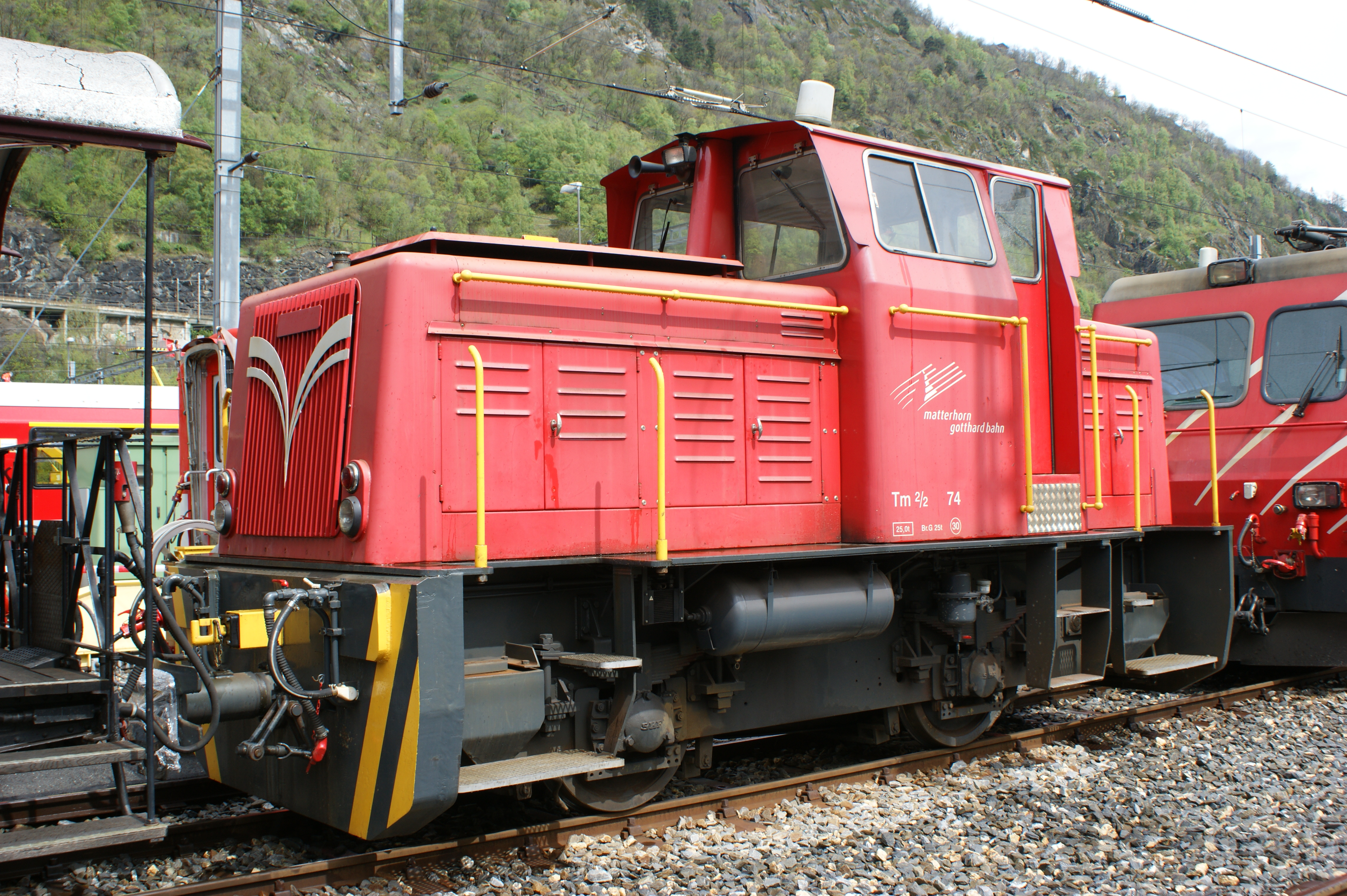 Locomotor MGB Tm 2/2 74 (formely BVZ), originally Kerkerbachbahn 18, then DB Locomotor 333 901, in Brig Glisergrund, the maintenance area of the Matterhorn–Gotthard-Bahn